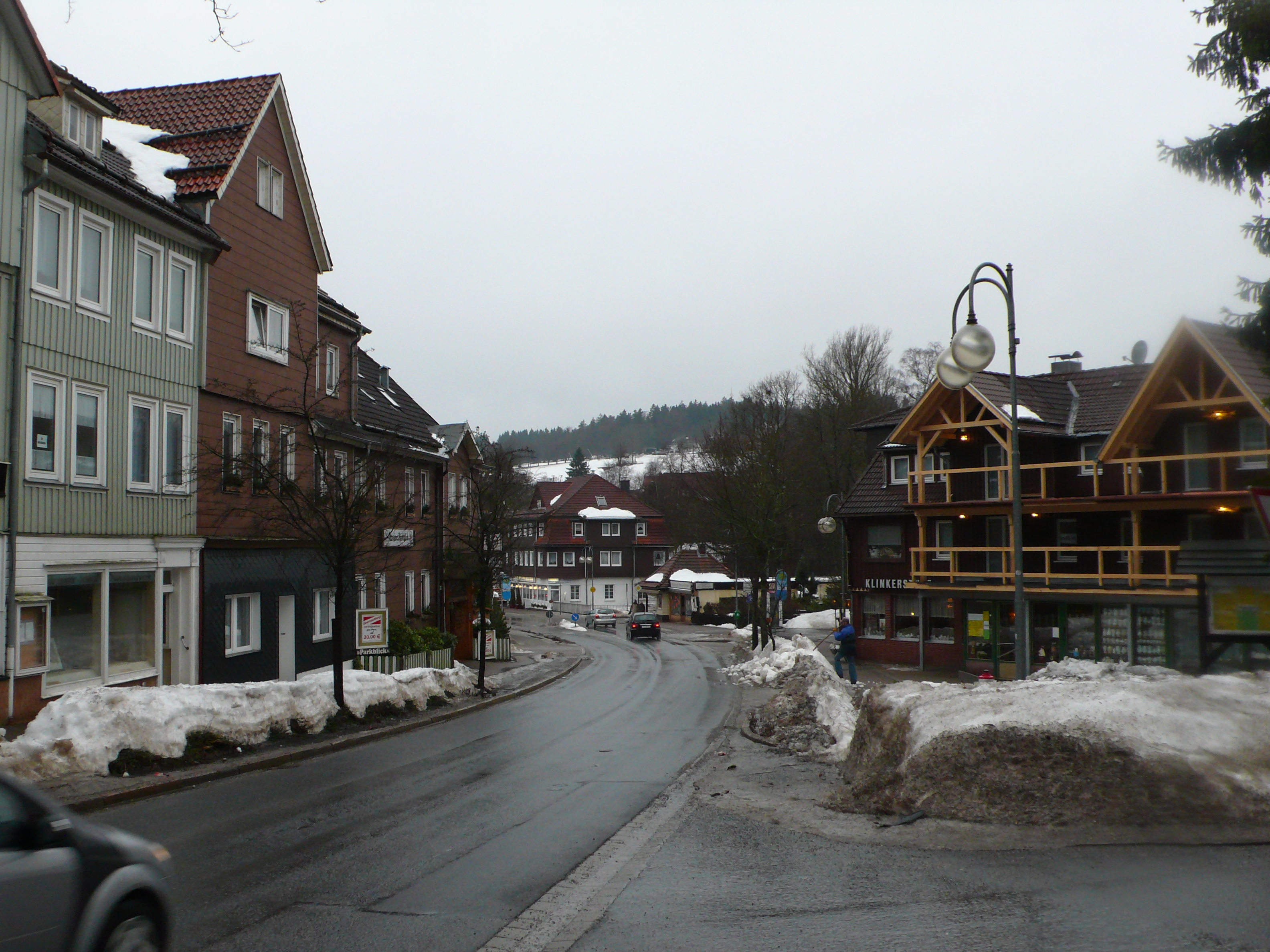 Streets of Braunlage